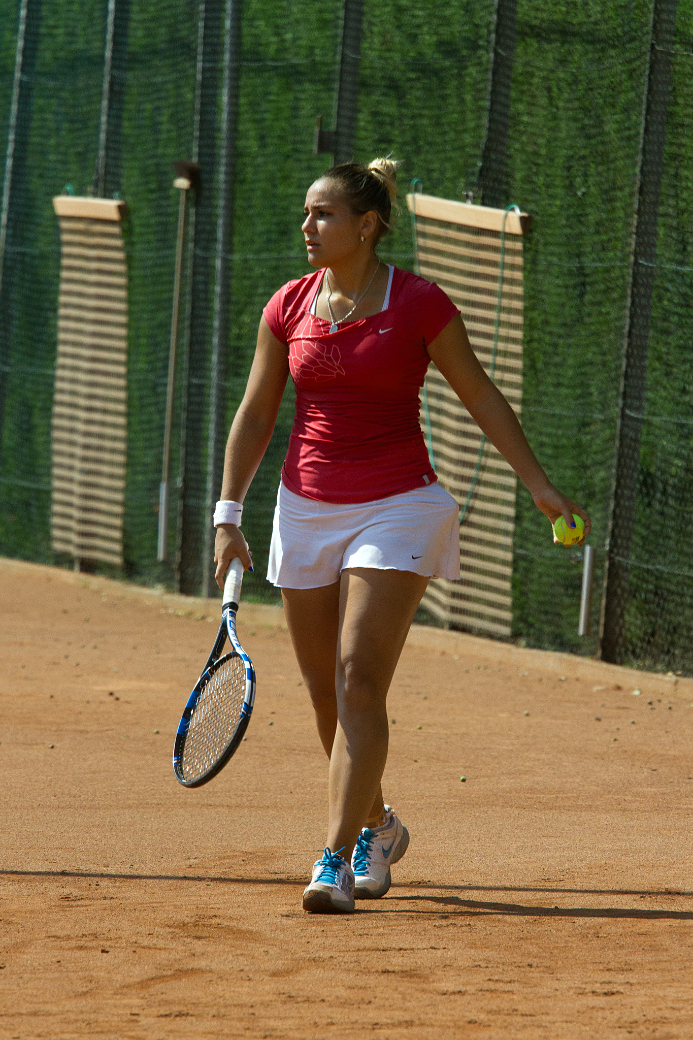 Paraguayan tennis player Camila Giangreco Campiz in the semifinal of the Parker Hannifin Open tournament in Oldenzaal, The Netherlands